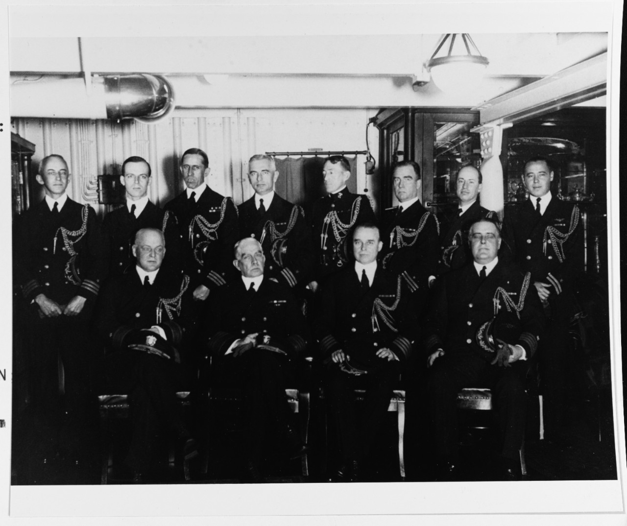 Admiral Hilary P. Jones as CINCUS with his staff, aboard USS MARYLAND (BB-46) circa 1923. Those present: first row L-R: Rear Admiral G.W. Williams, USN, Admiral Hilary P. Jones, USN, Captain C.E. Riggs, MC USN, and Captain G. Brown, SC USN. Second row L-R: Commander R.C. Davis, USN, Lieutenant T.A.M. Craven, USN, Commander Herbert F. Leary, USN, Commander B. Dutton Jr., USN, Lieutenant Colonel J.W. Wadleigh, USMC, Commander W.W. Smith, USN, Commander R.B. Hilliard, CC USN, and Lieutenant DeWitt C. Ramsey, USN.